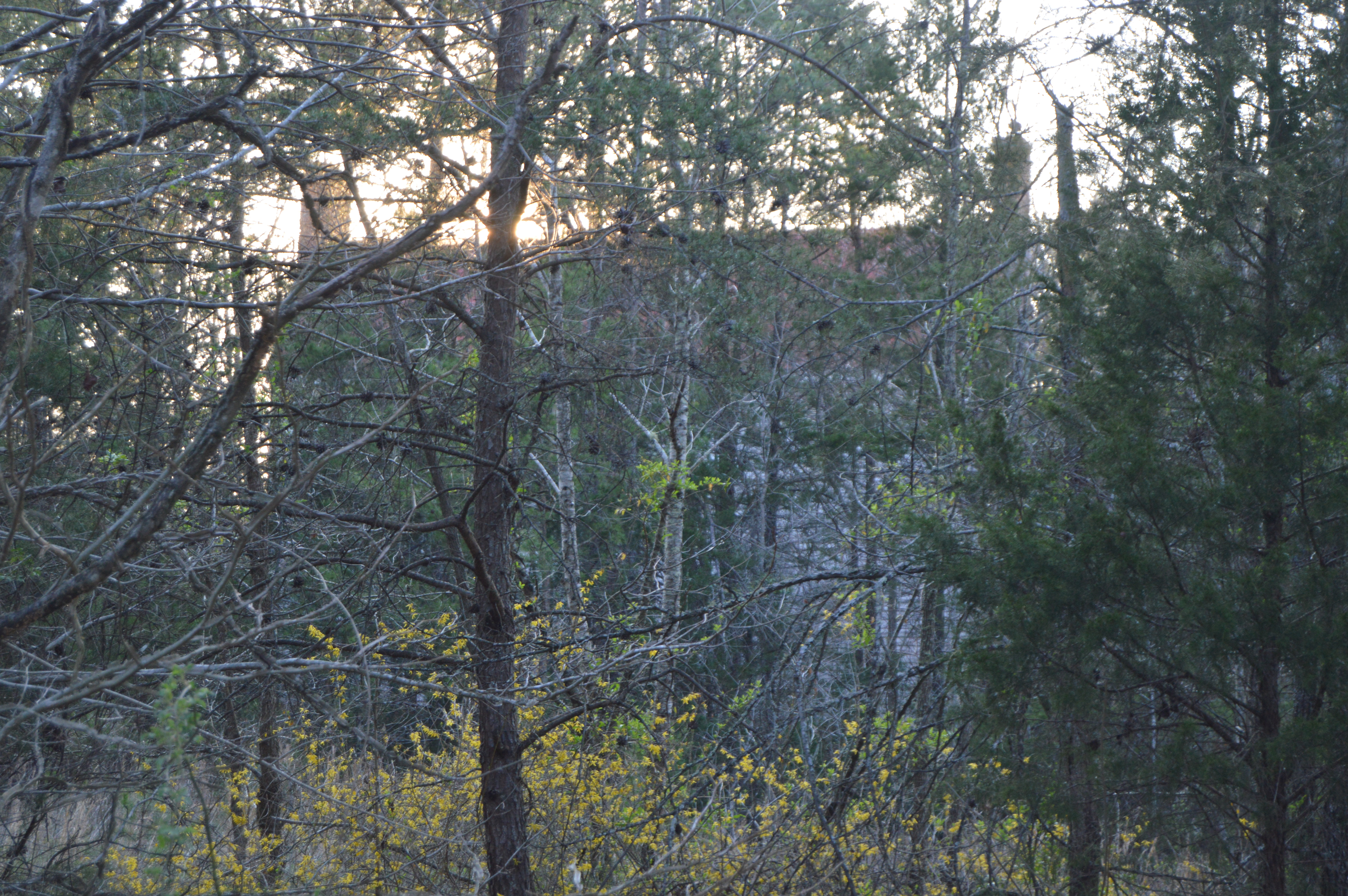 Through-the-trees view of the front of the abandoned Dr. Richard Thornton House, located on Tobacco Road just north of Golden Leaf Road in Halifax County, Virginia, United States. Built in 1818, it is listed on the National Register of Historic Places.